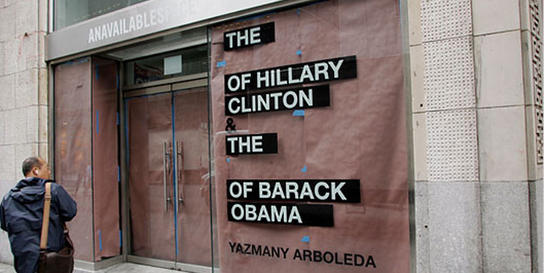 This is a picture taken of the 'ANAVAILABLESPACE' installation by new yorker yazmany arboleda